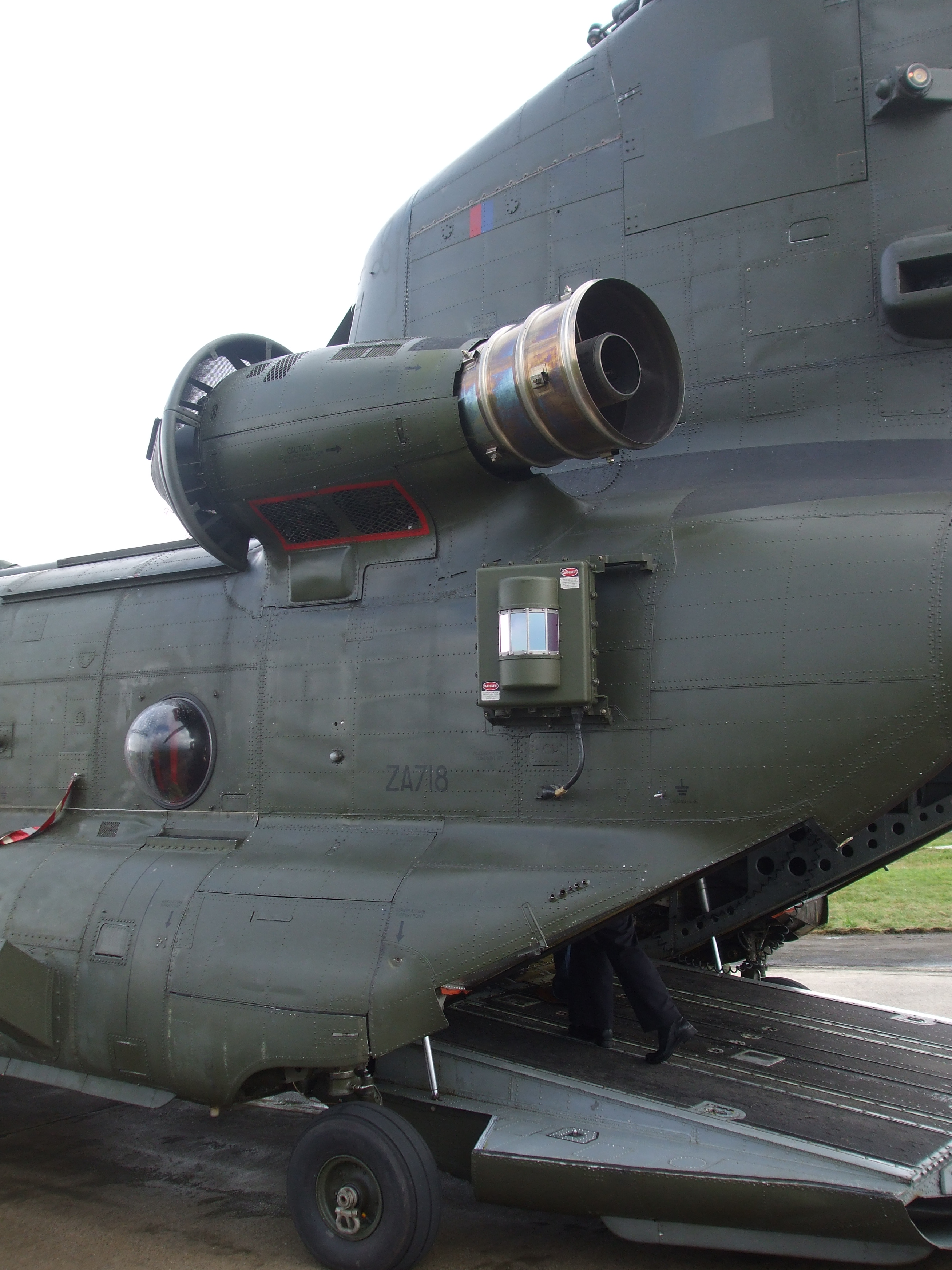 After various upgrades the famous British Royal Air Force Chinook ZA718 is still in squadron service more than 30 years after its entry into service. When the picture was taken at Nordholz Naval Air Station at the occasion of the 100th anniversary of the German Marineflieger the aircraft wore its original code "BN". During the years the "BN" code was assigned to various aircraft of the RAF's 18 Squadron.